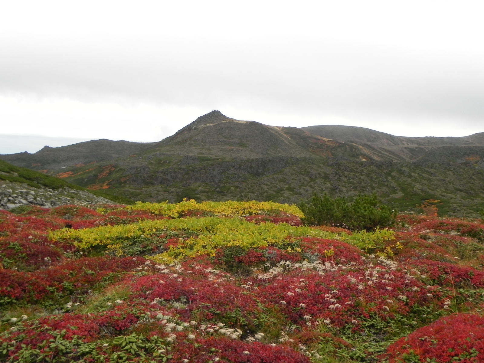 烏帽子岳・北側から（Mt. Eboshi from the north side）